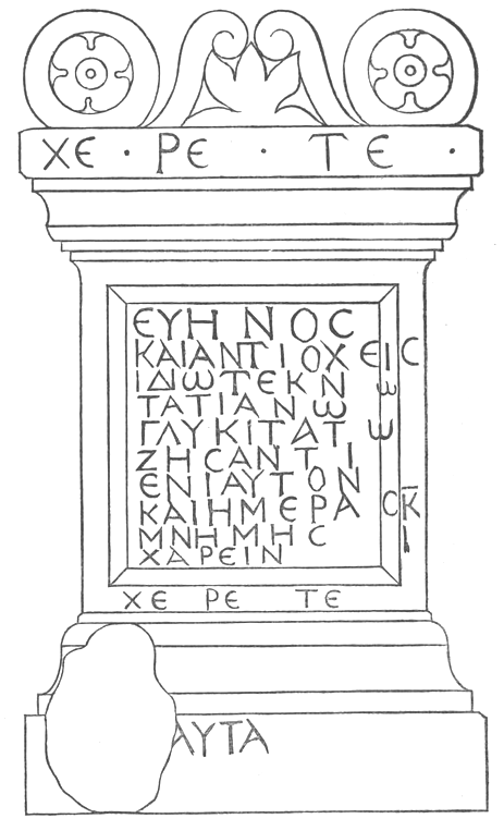 Ancient greek funerary monument, found in Fazenda do Trindade, in the Santa Luzia parish, Tavira Municipality, in Portugal. It was studied by german archaeologist Emil Hübner in the middle of the 19th century. The zone of Santa Luzia was near the ancient city of Balsa. This drawing was taken from the book Povos Balsenses (page 26), by Estácio da Veiga, published in 1866, and available at the Google Books website.